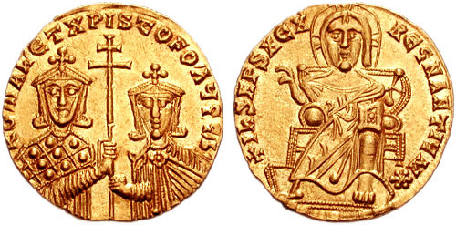 ROMANUS I, Lecapenus, with CHRISTOPHER. AV Solidus (20mm, 4.40 gm, 6h). Constantinople mint. Struck 921-931 AD. +IhS XPS REX REGNANTIUM*, Christ, nimbate, enthroned facing, raising hand in benediction and holding Gospels / ROMAN' ET XPISTOFO' AUGG b', crowned facing busts of Romanus I, with short beard and loros, and Christopher, beardless and wearing chlamys, holding patriarchal cross between them. DOC III 7; SB 1745. Choice EF, sharp strike with traces of lustre.